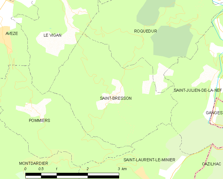 Map commune FR insee code 30238.png - Saint-Bresson (Gard)